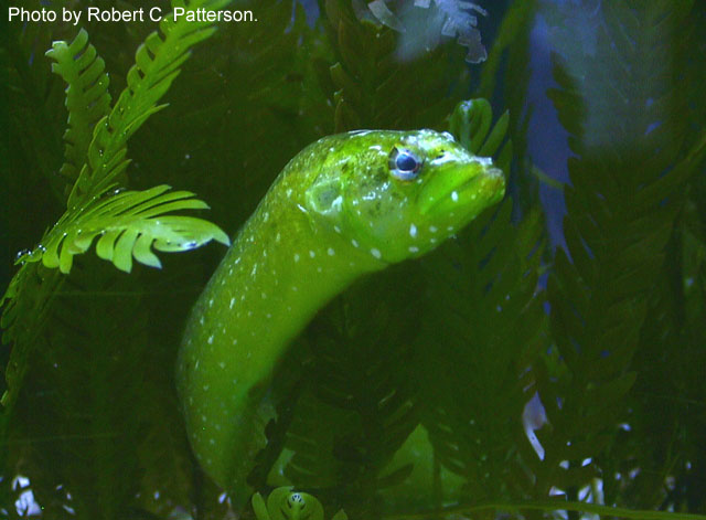 Congrogadus subducens